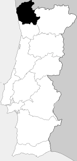 Former province of Minho, Portugal Created by User:Brian Boru in September 2005, based on a map created by Jorge Candeias.